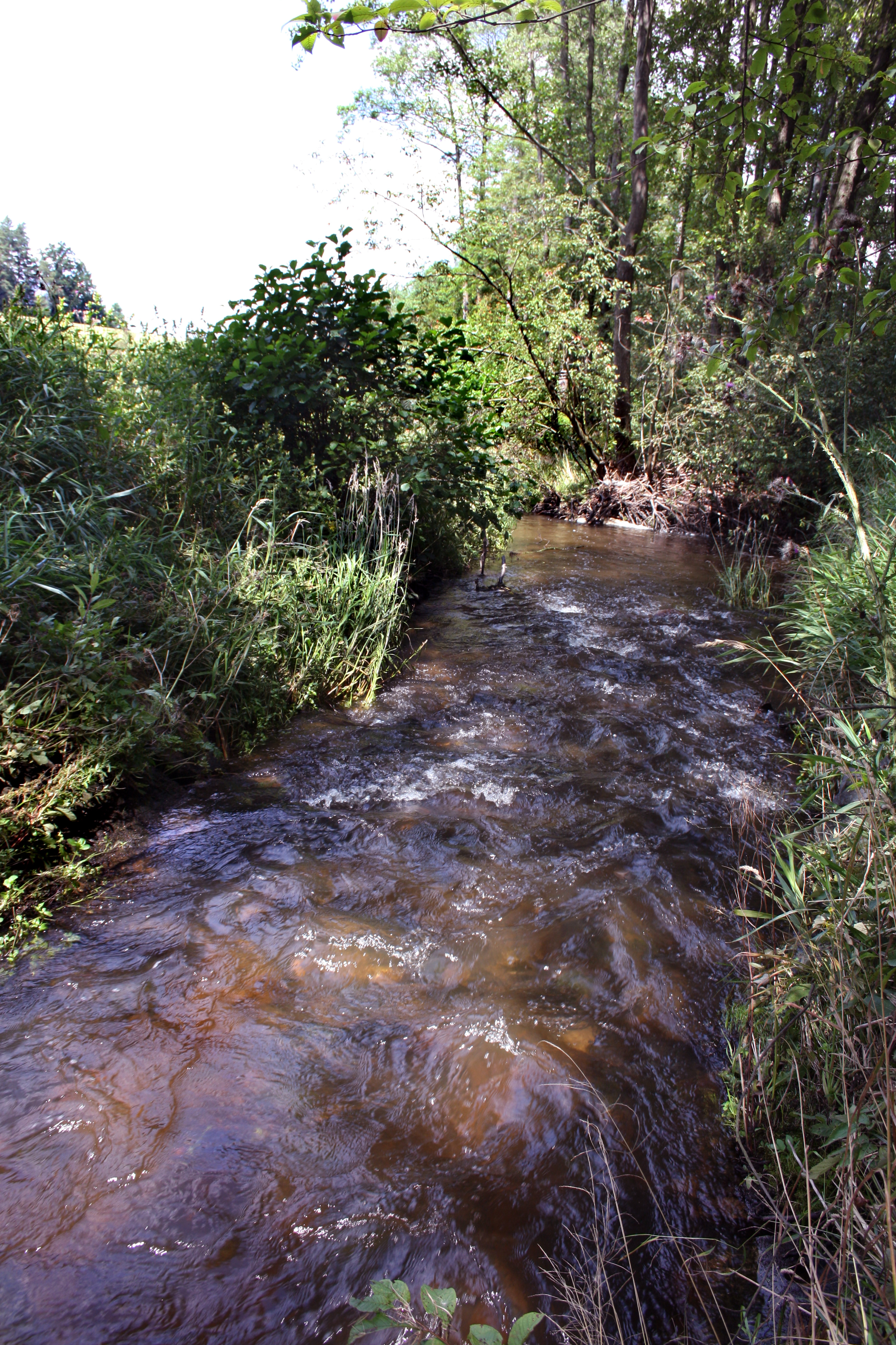 Kladinský Potok natural reserve, Czech Republic